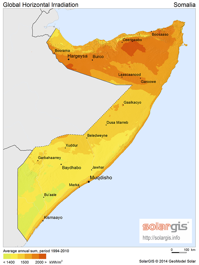 Solar Radiation Map: Global Horizontal Irradiation Map of Somalia, SolarGIS.